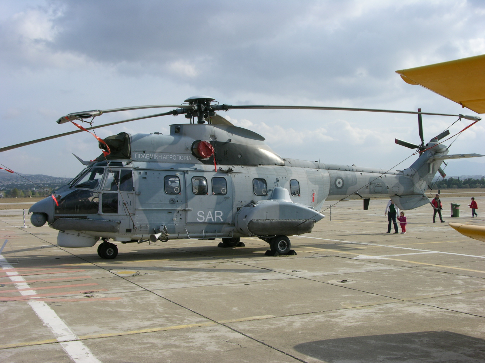 Combat SAR Super Puma at the open day at Tatoi-Dekelia Nov-08